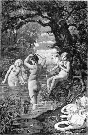 The three swan-maidens / valkyries of Völundarkviða with their swan-cloaks off. In the poem, they're spinning linen, not bathing nude.